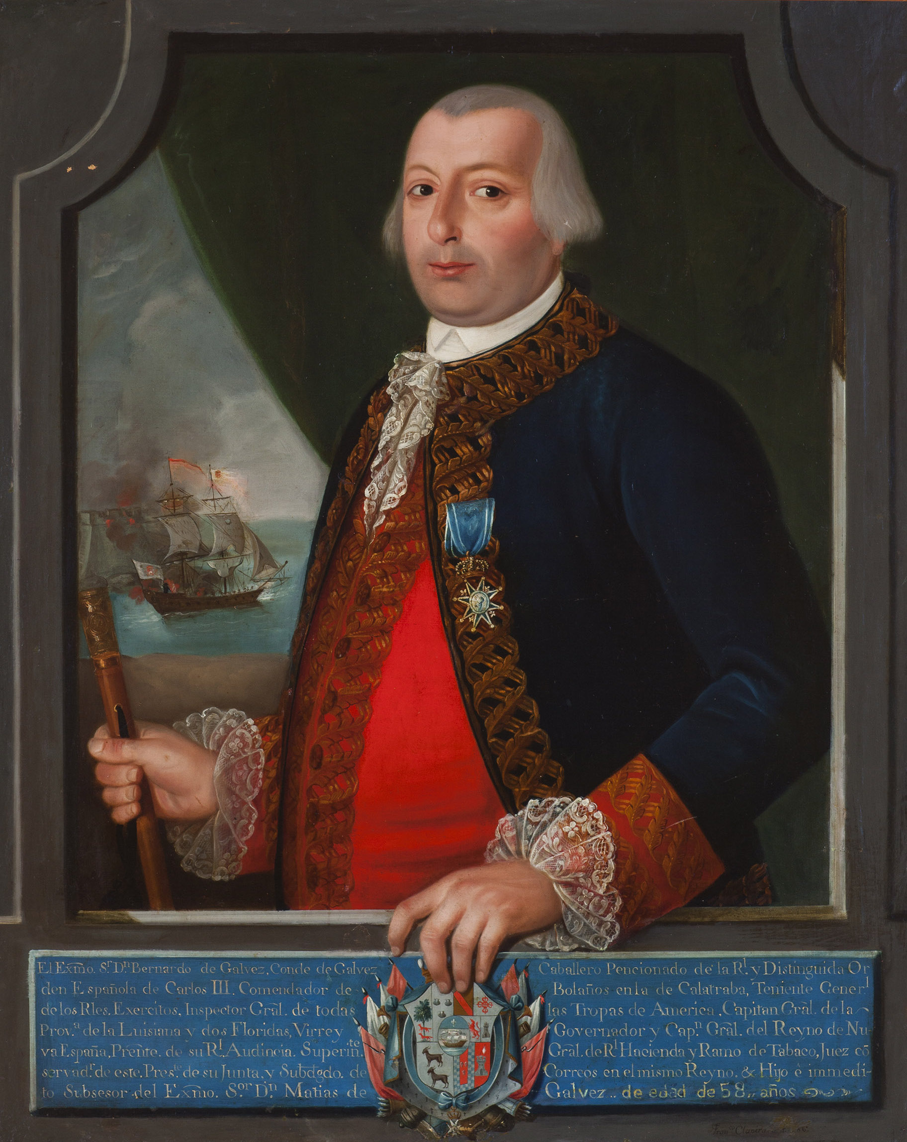 Portrait of Spanish viceroy of New Spain, Bernardo de Gálvez y Madrid, 1st Viscount of Galveston and 1st Count of Gálvez, U.S. Honorary Citizen